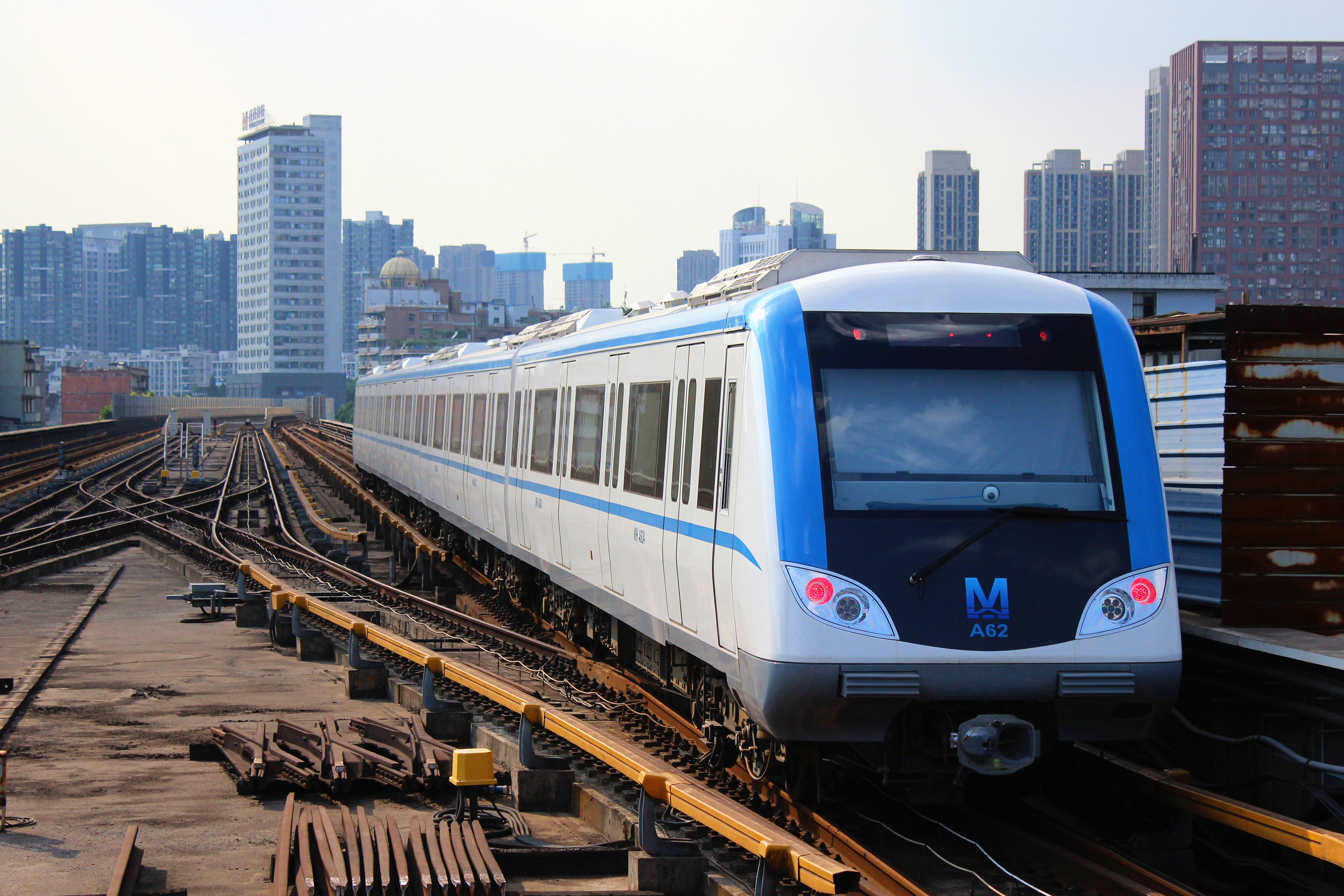 Rolling stock NO. A62 of Wuhan Metro Line 1, taken at Zongguan Station.